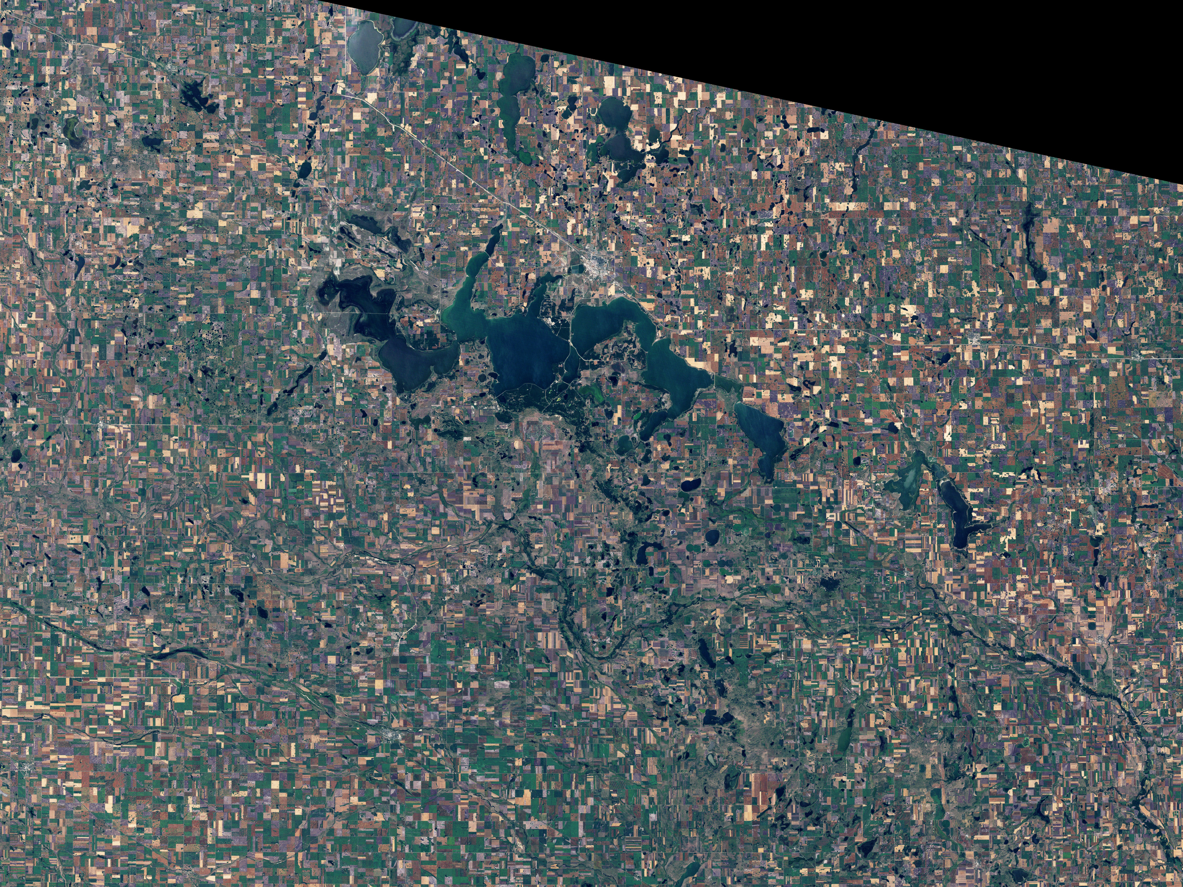 Satellite image of Devils Lake located in ND, 5/1984.